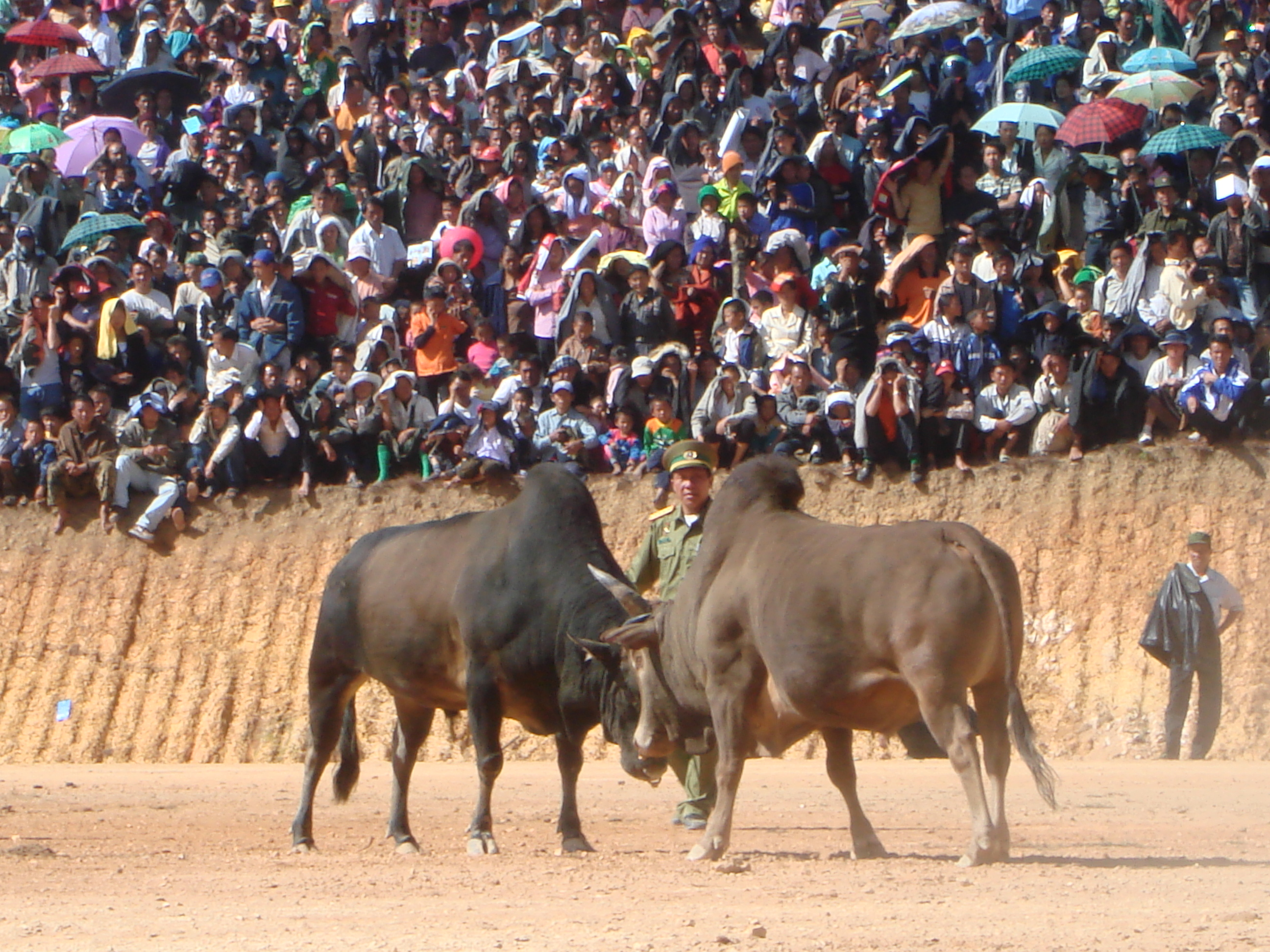 Bullfight during Hmong New Year 2007